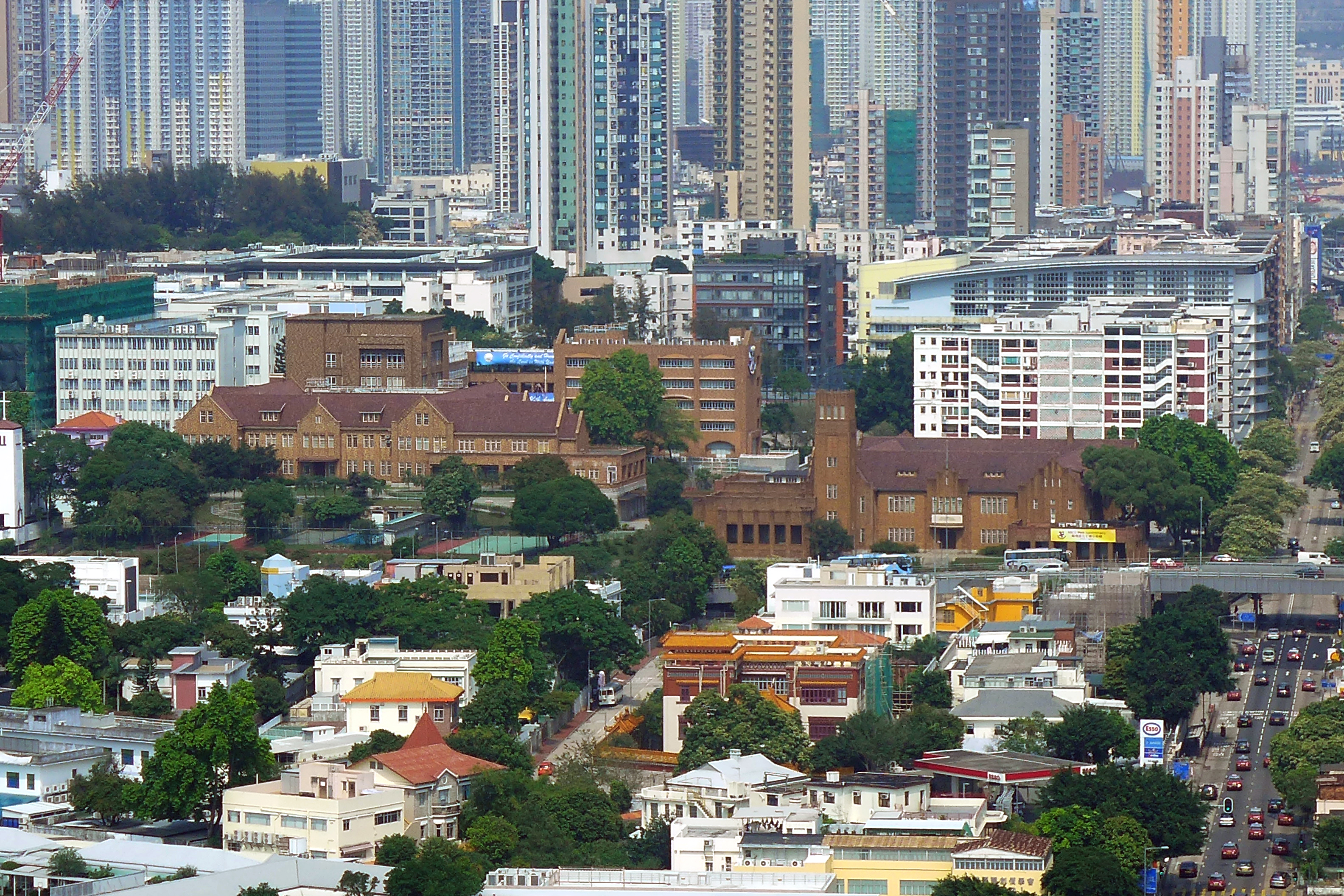 Maryknoll Convert School